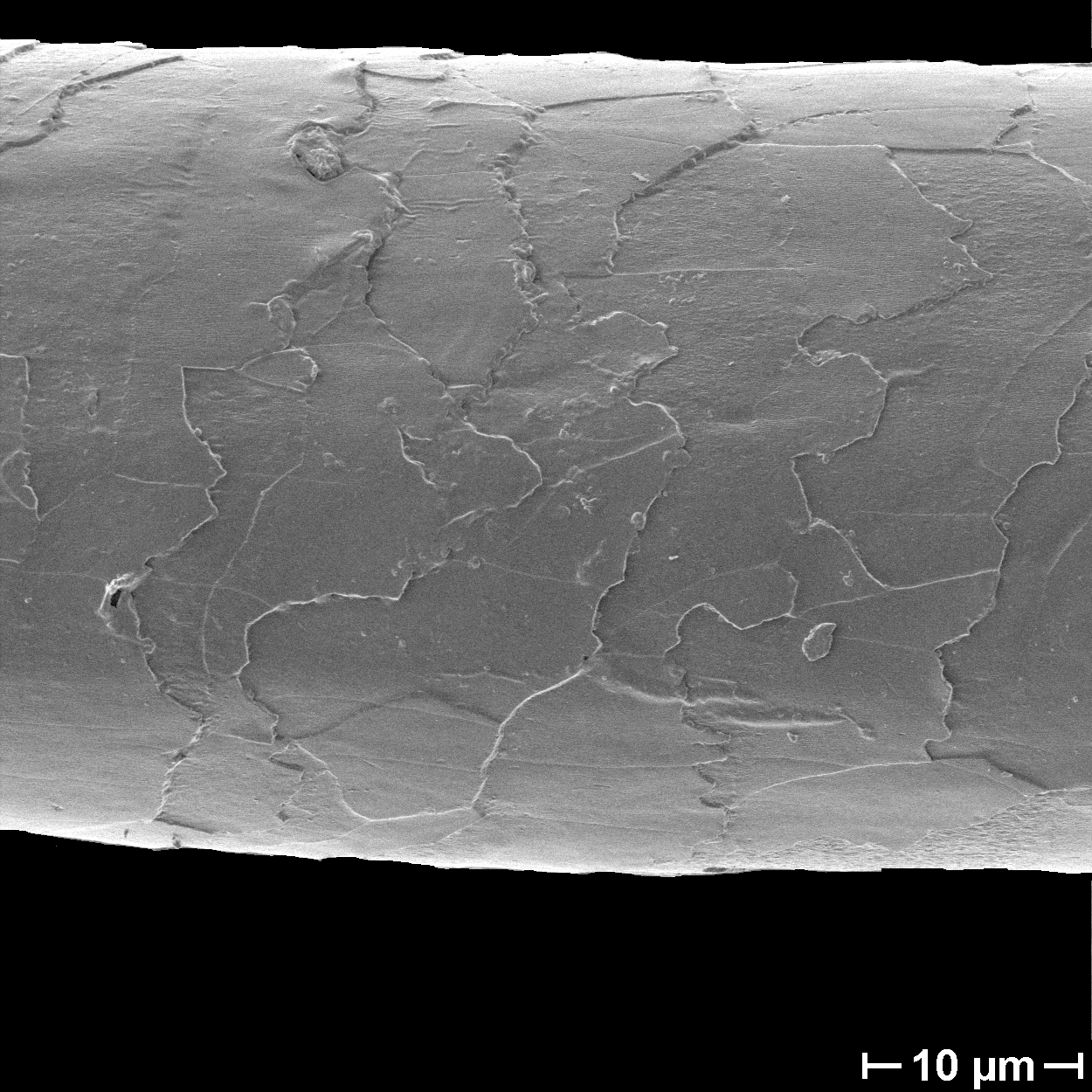 Scanning electron microscope image of a hair from a llama